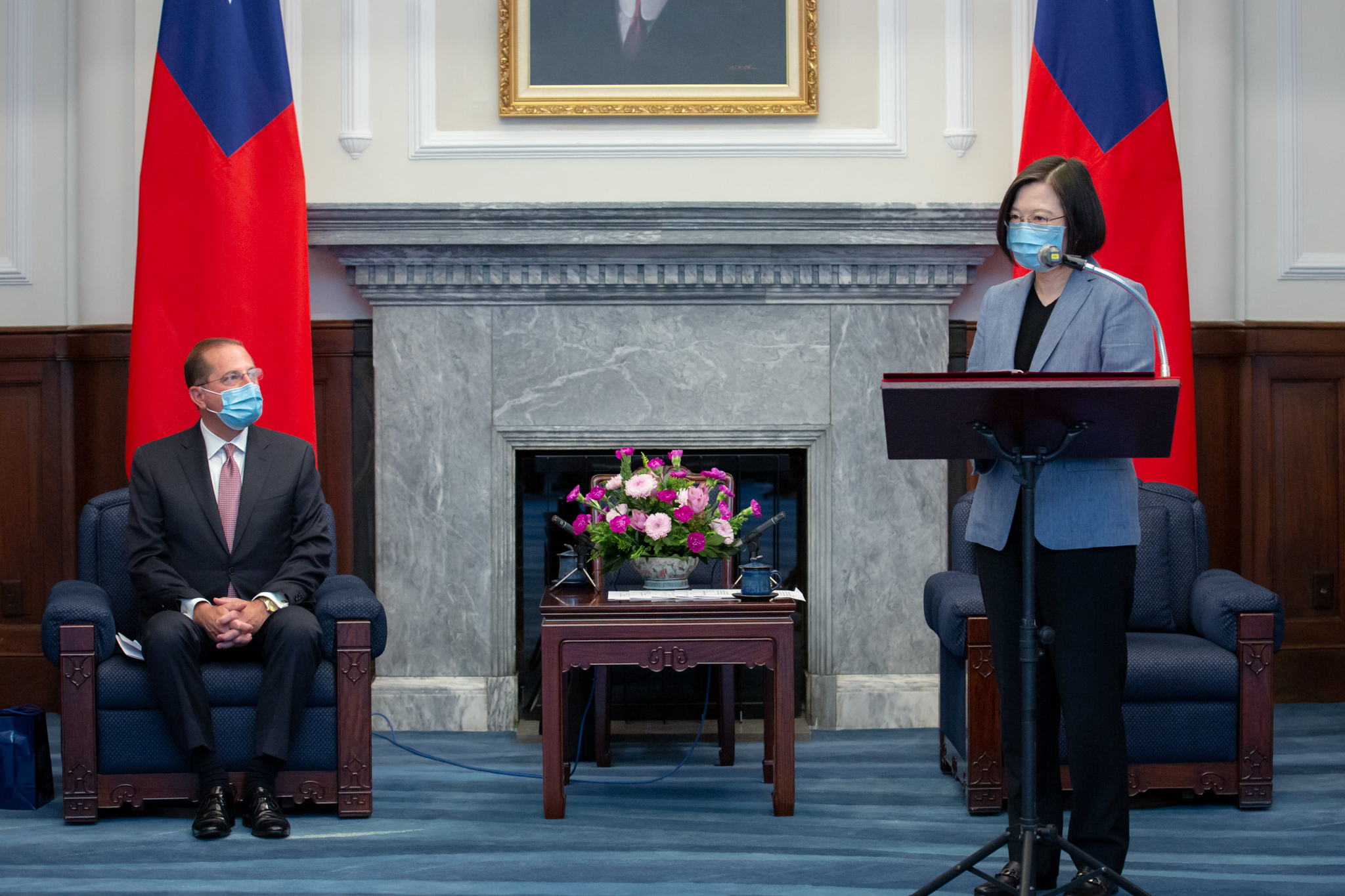 U.S. Health and Human Services Secretary Alex Azar is meeting with ROC Taiwan President Tsai Ing-wen